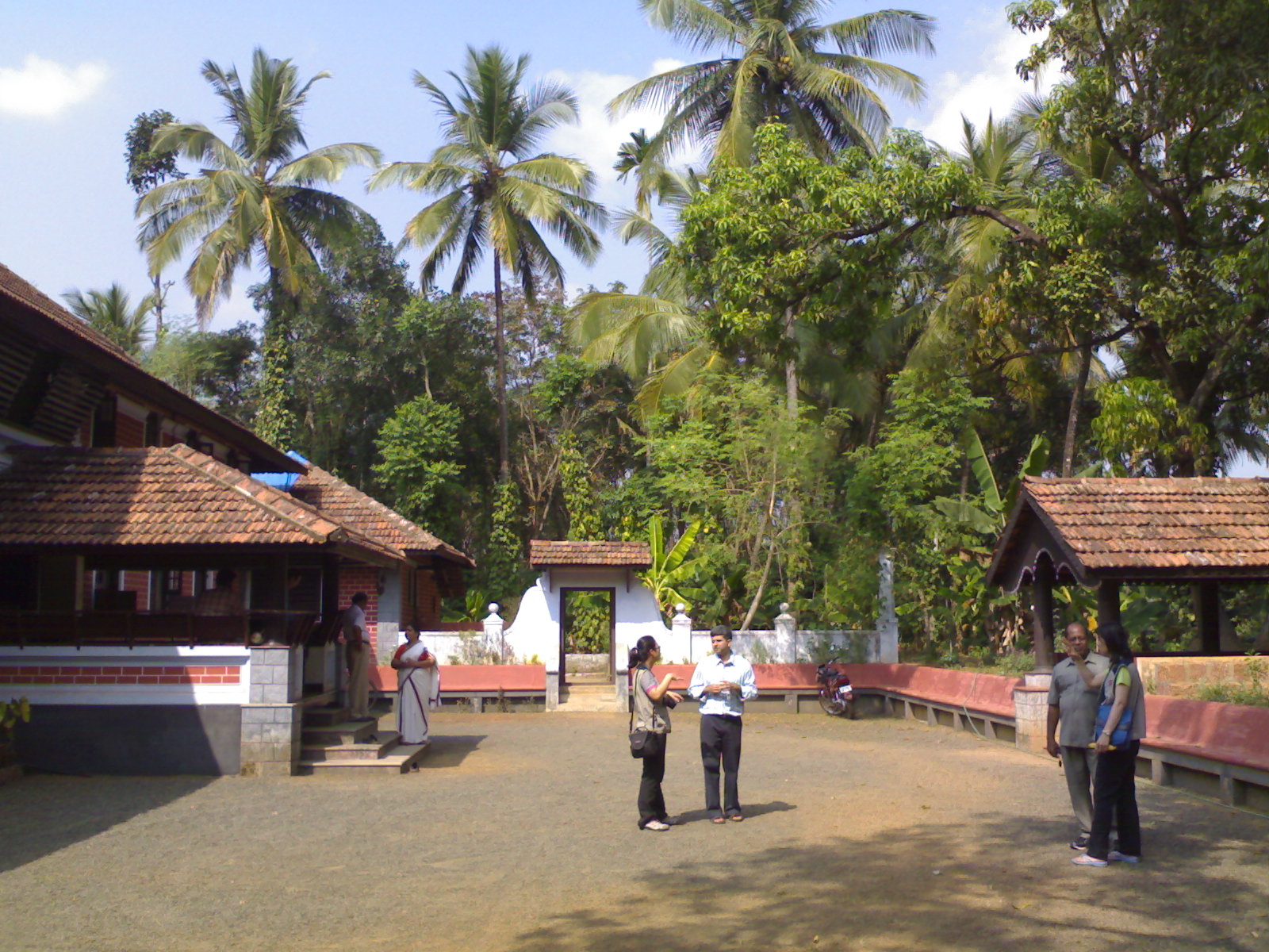 Visitors from South Korea viewing the Ettu-Kettu Architectural Style.